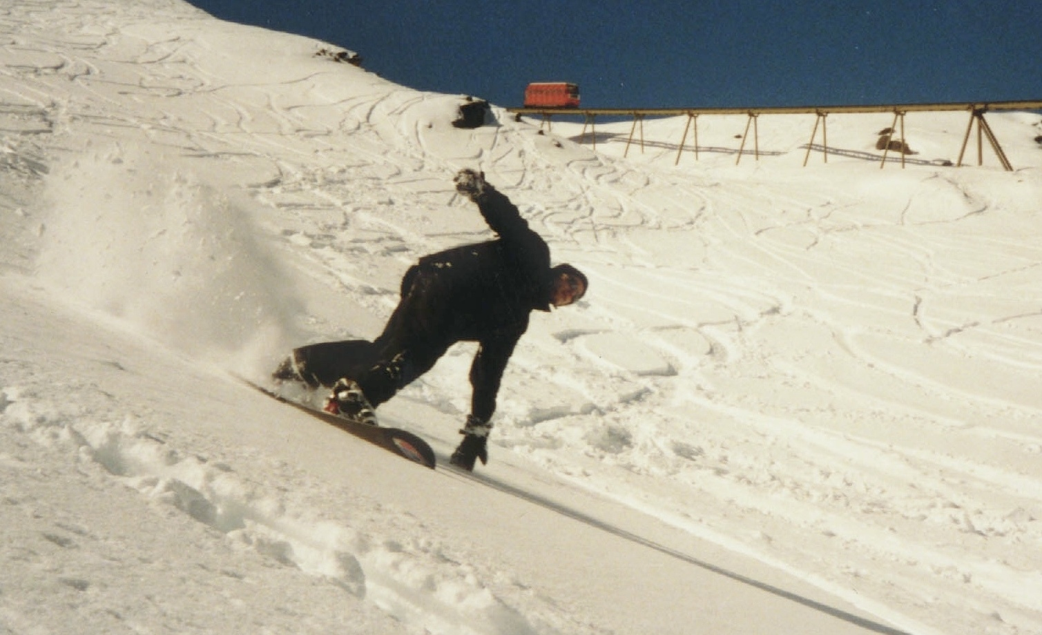 Freeriding off the slope in Axamer Lizum ski area, Tyrolia, Austria